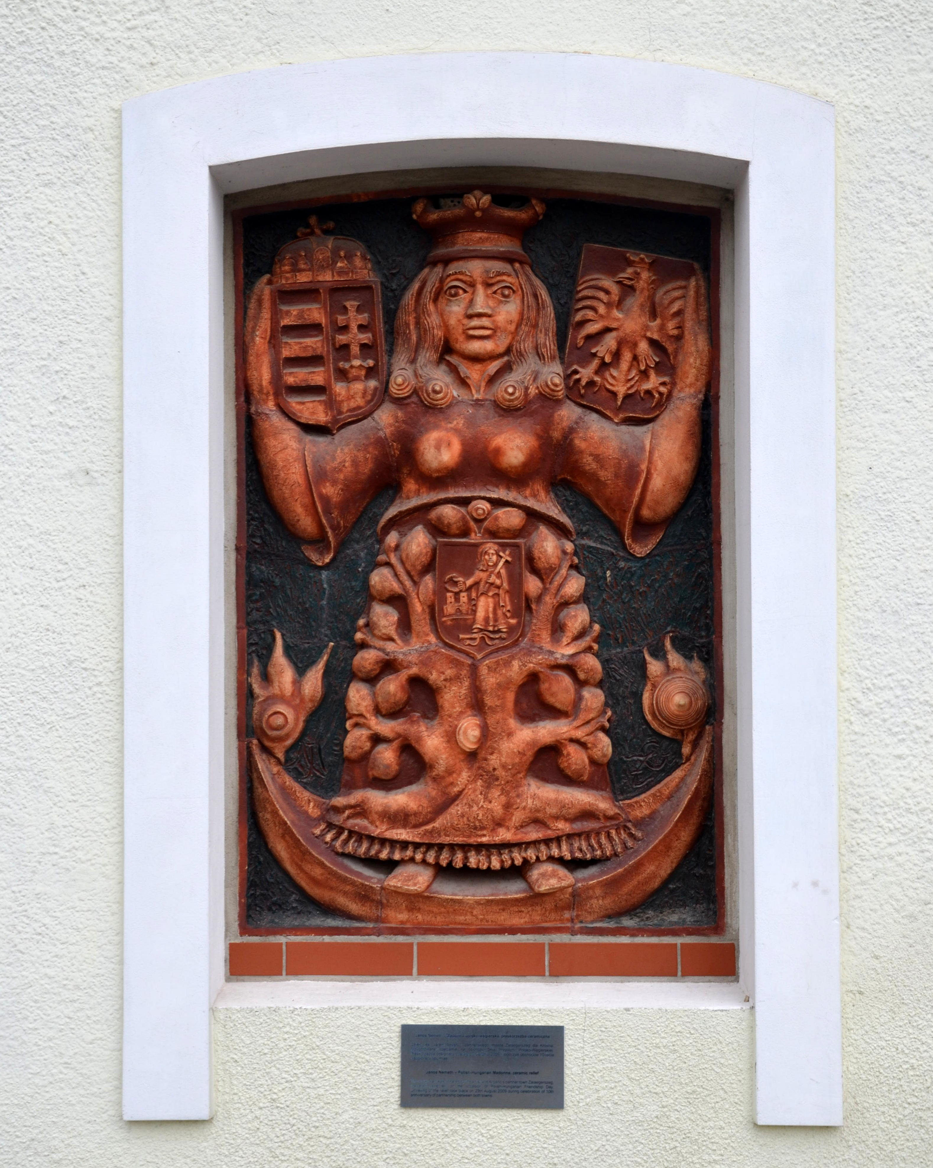 Janos Nemeth "Polish Hungaria Madonna ceramic relief"